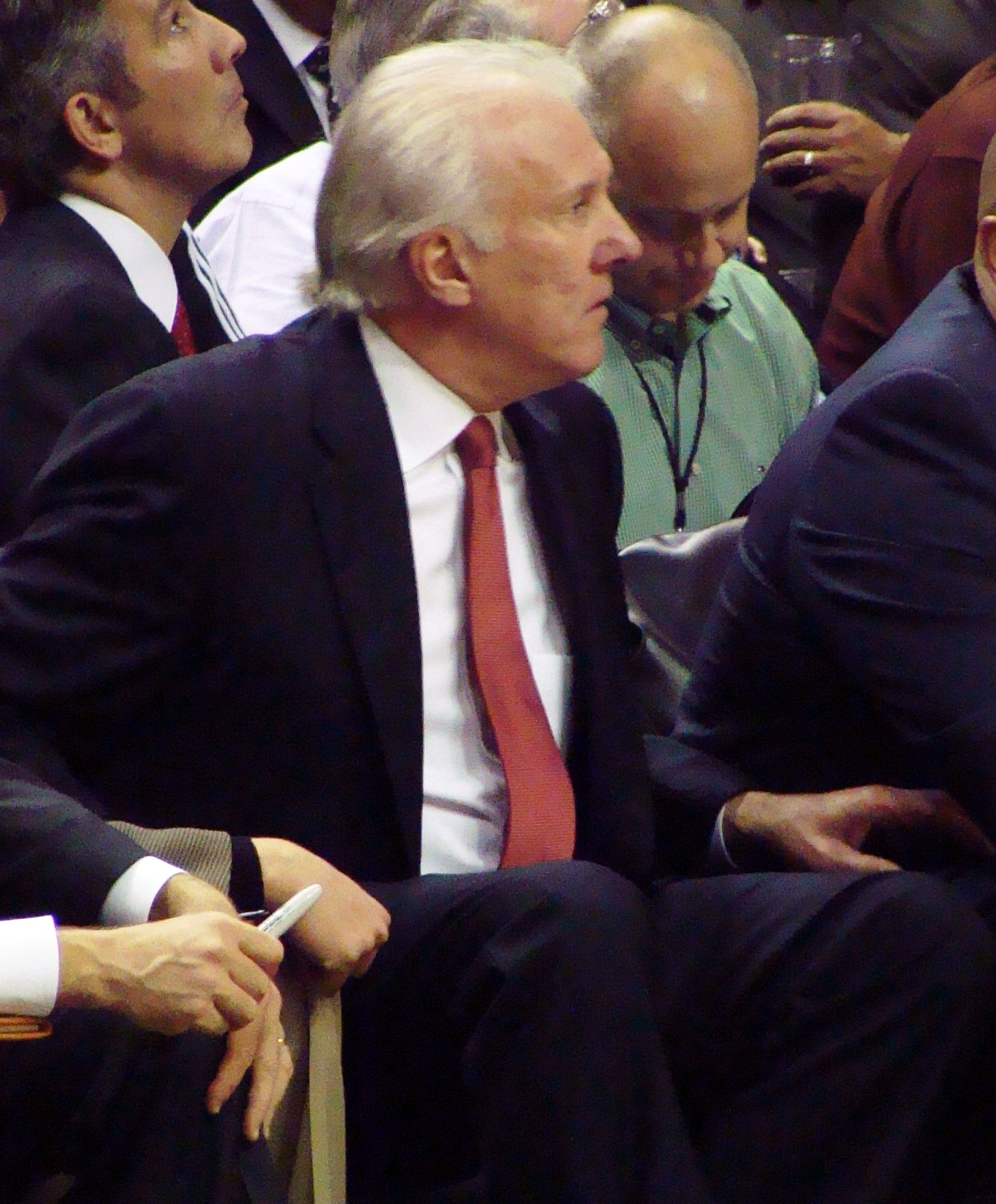 Gregg Popovich, head coach of the San Antonio Spurs, against the Denver Nuggets, December 22, 2010.